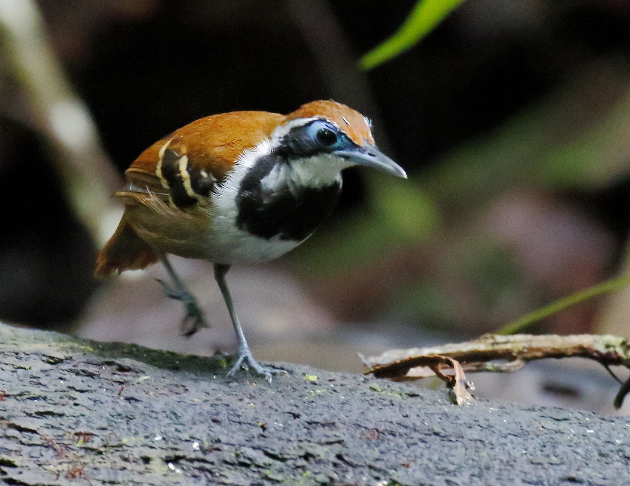 Ferruginous-backed antbird (female) at Presidente Figueiredo, Amazonas, Brazil